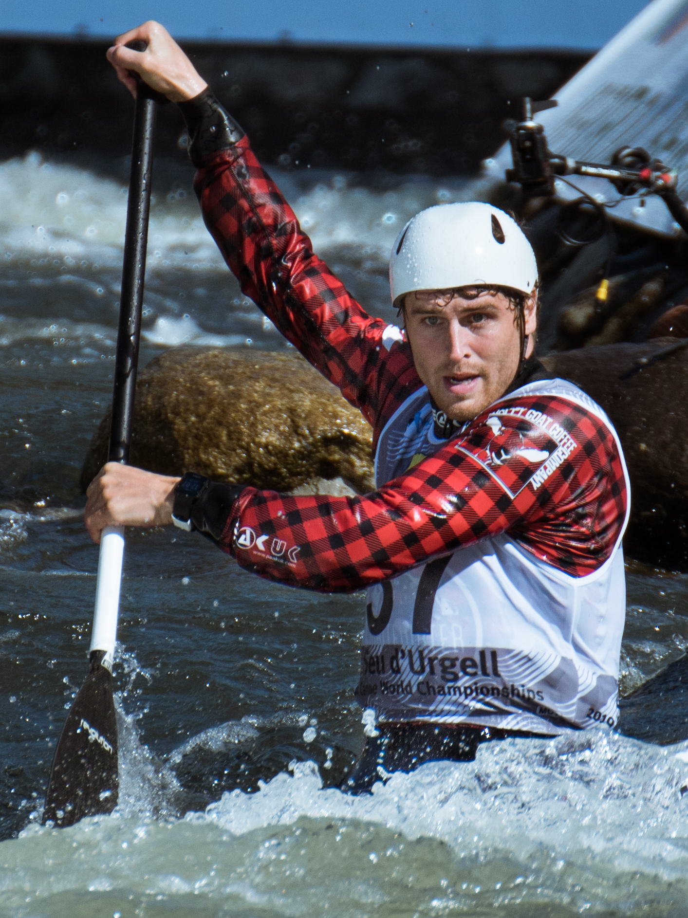 Cameron Smedley during the 2019 Canoe Slalom World Championships in La Seu d'Urgell, Spain.